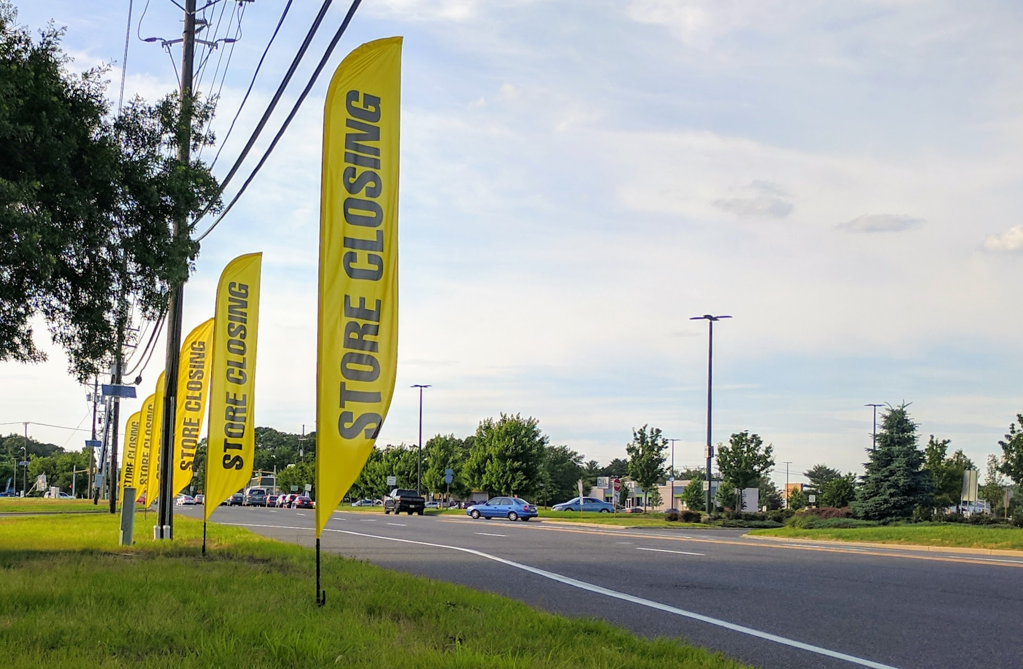 Store closing flags along a highway in New Jersey - USA